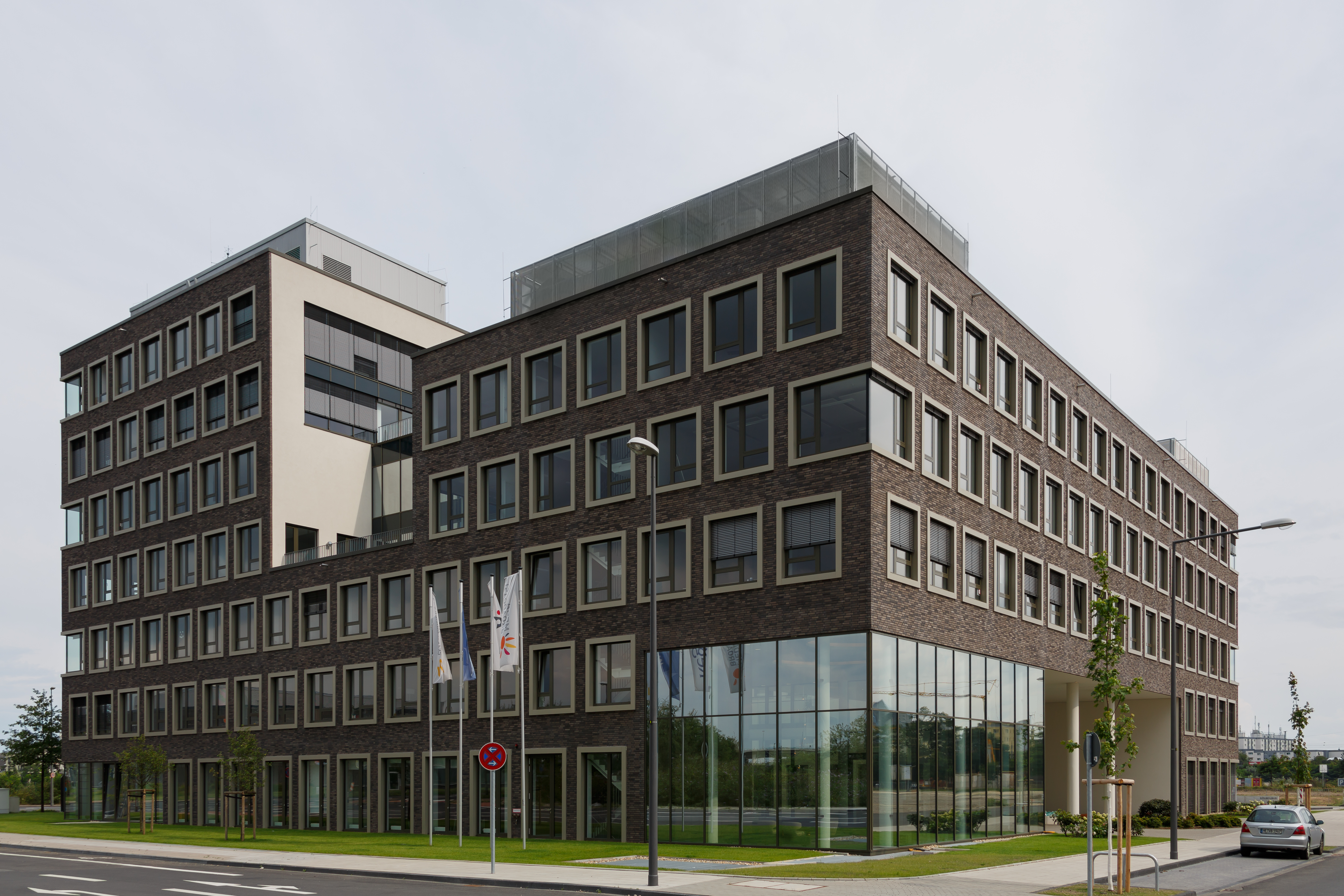 Cologne, Germany: KölnKubus at Deutzer Feld)